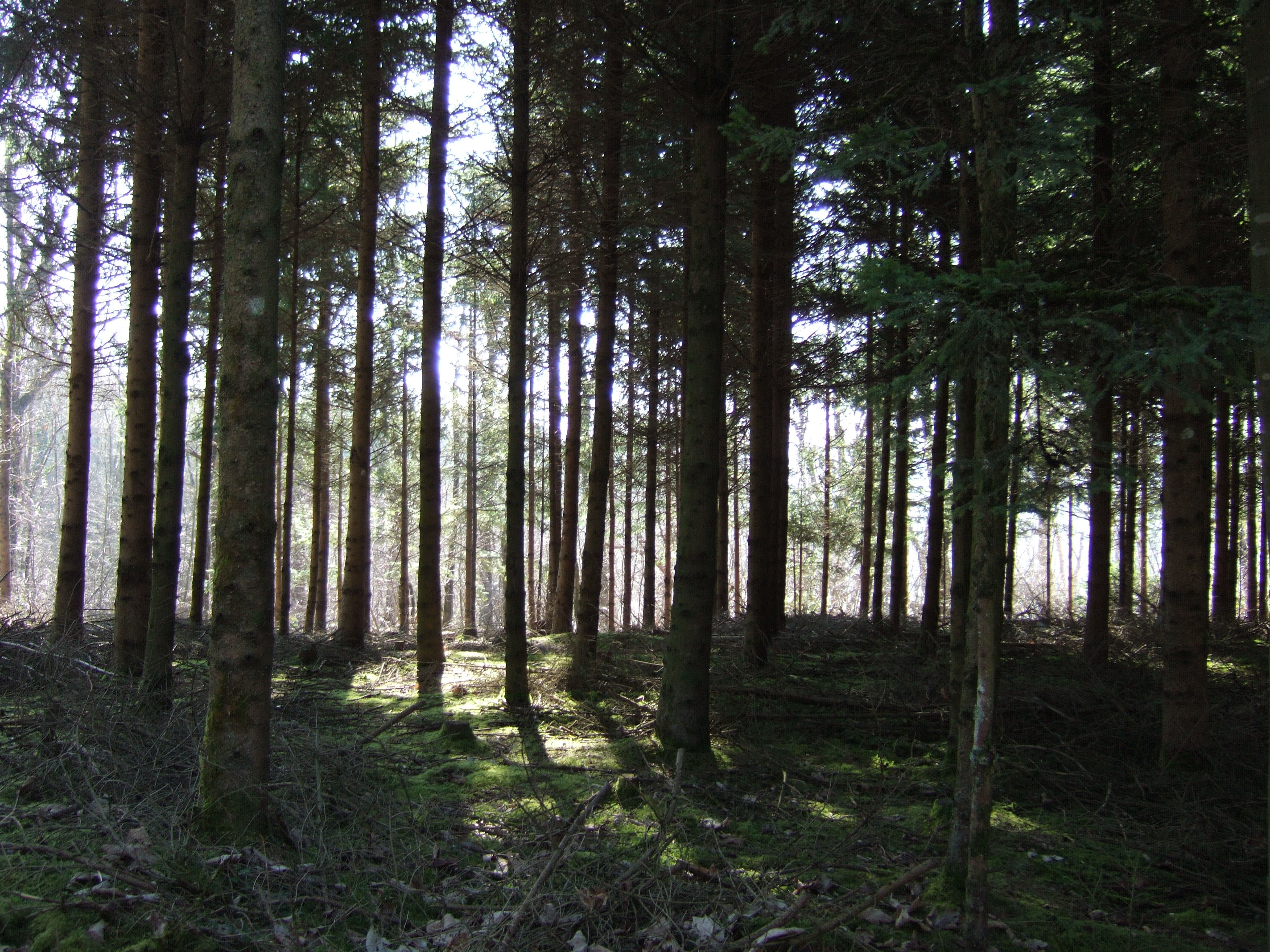 Sunlight penetrating dense wood between Dietikon and Fahrweid, Switzerland.